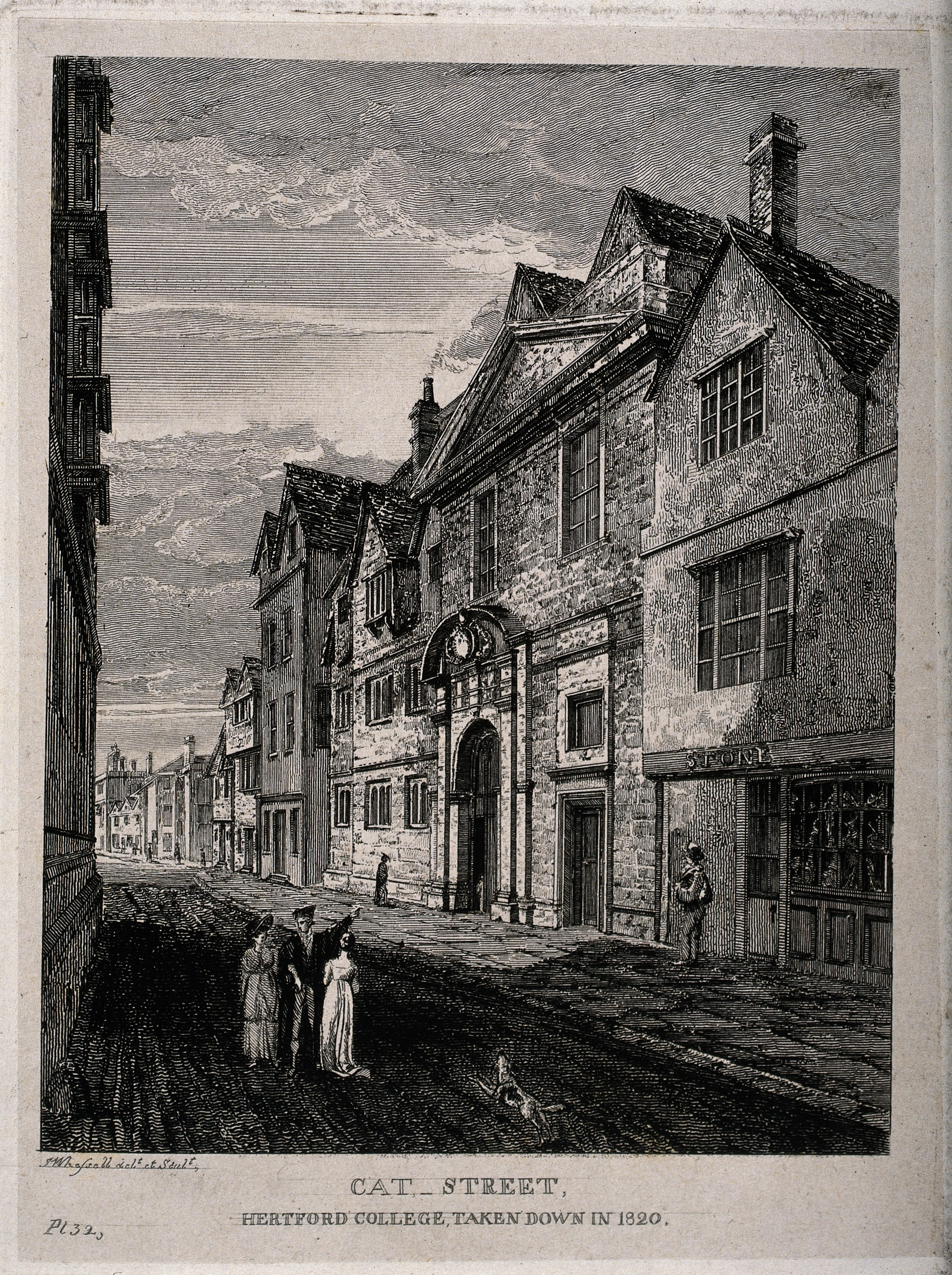 Hertford College, Oxford. Etching by J. Whessall after himself. Iconographic Collections Keywords: J. Whessell; University of Oxford; Hertford College (Oxford, England)